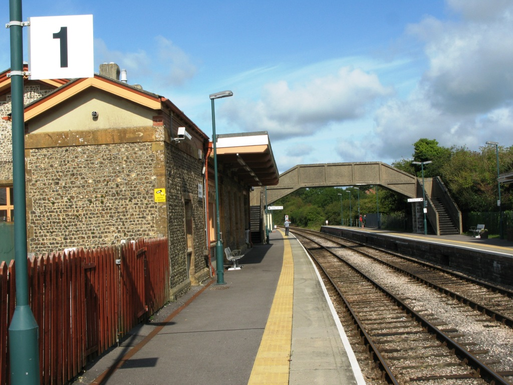 Looking north on Maiden Newton station, Dorset, England.